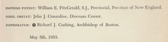 The imprimi potest, nihil obstat, and imprimatur statements on a book by a S. J. priest published by Random House in 1953.